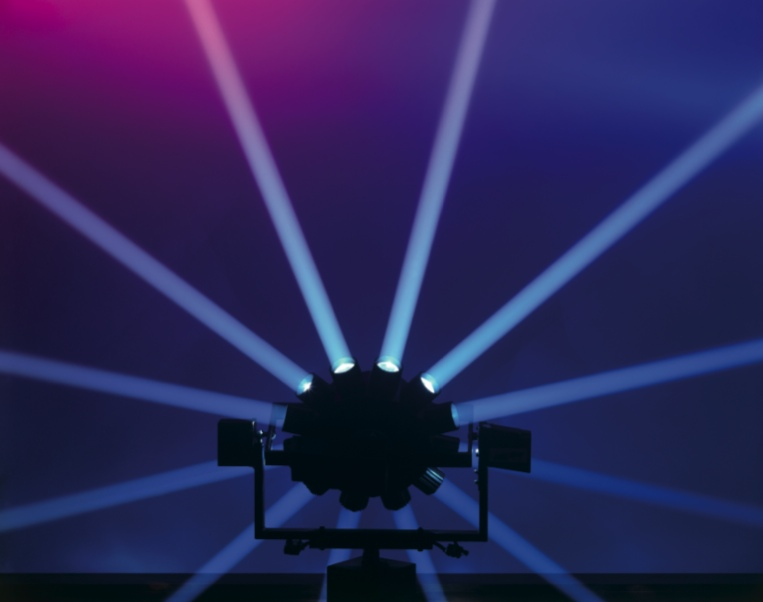 Considered a vintage disco lighting effect, the Astrodisco was introduced by Italian lighting manufacturer Clay Paky in 1982. It uses a single lamp to project multiple rays of coloured light across ceilings and dance floors in discotheques and nightclubs.